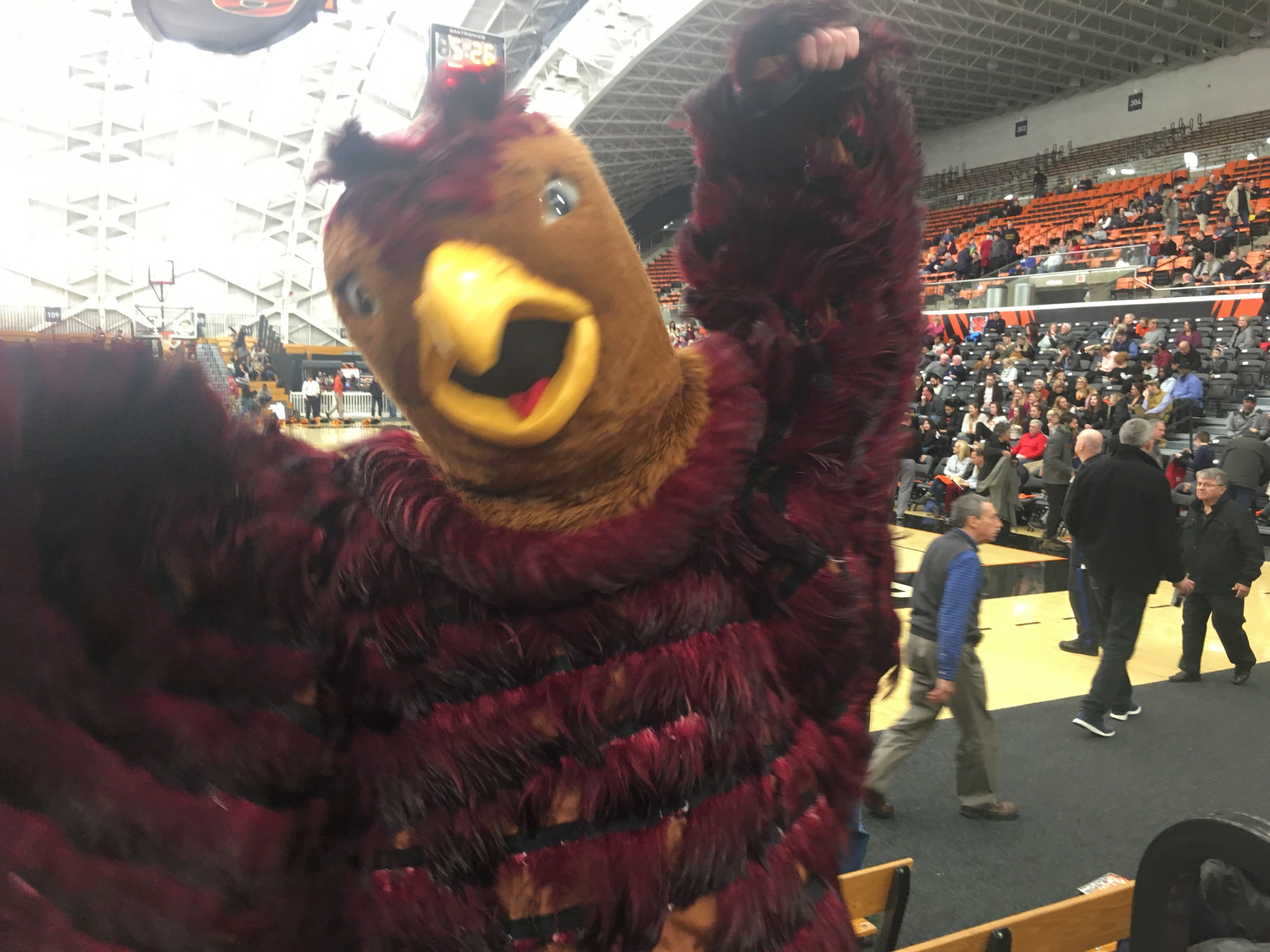 The Hawk, the mascot of the Saint Joseph's University Hawks basketball team, visits the stands during halftime of a game at Princeton's Jadwin Gymnasium. Unusually, the Hawk travels to all away games. The Hawk is most known never stopping the flapping of its wings during the entire game – here it is seen in mid-flap.